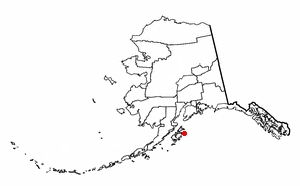 Adapted from Wikipedia's AK borough maps by Seth Ilys.